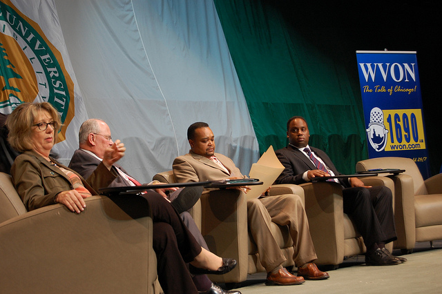 Jonathan Jackson serves on American Petroleum Institute Panel at Chicago State University.